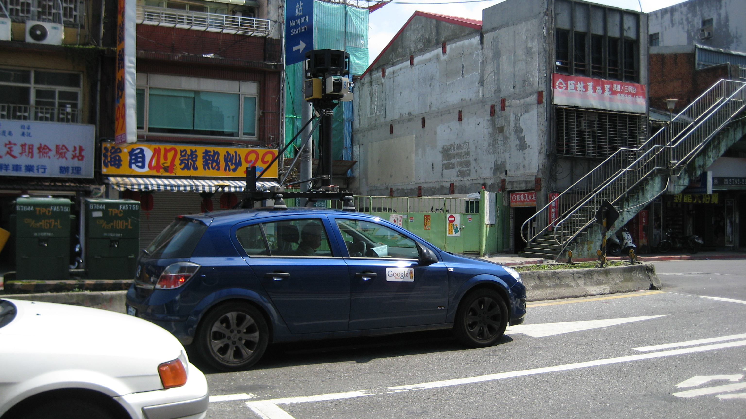 Photo of a Google Street View car trolling the streets in Taipei, Taiwan.